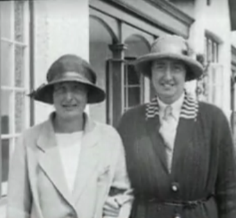 Ladies' Golf Final in Portmarnock, Ireland. Miss "Janet" Jackson and Mrs Babington